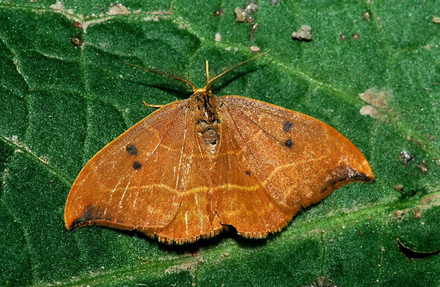 Oak Hook-tip, Watsonalla binaria (Hufnagel, 1766) (=Drepana binaria)